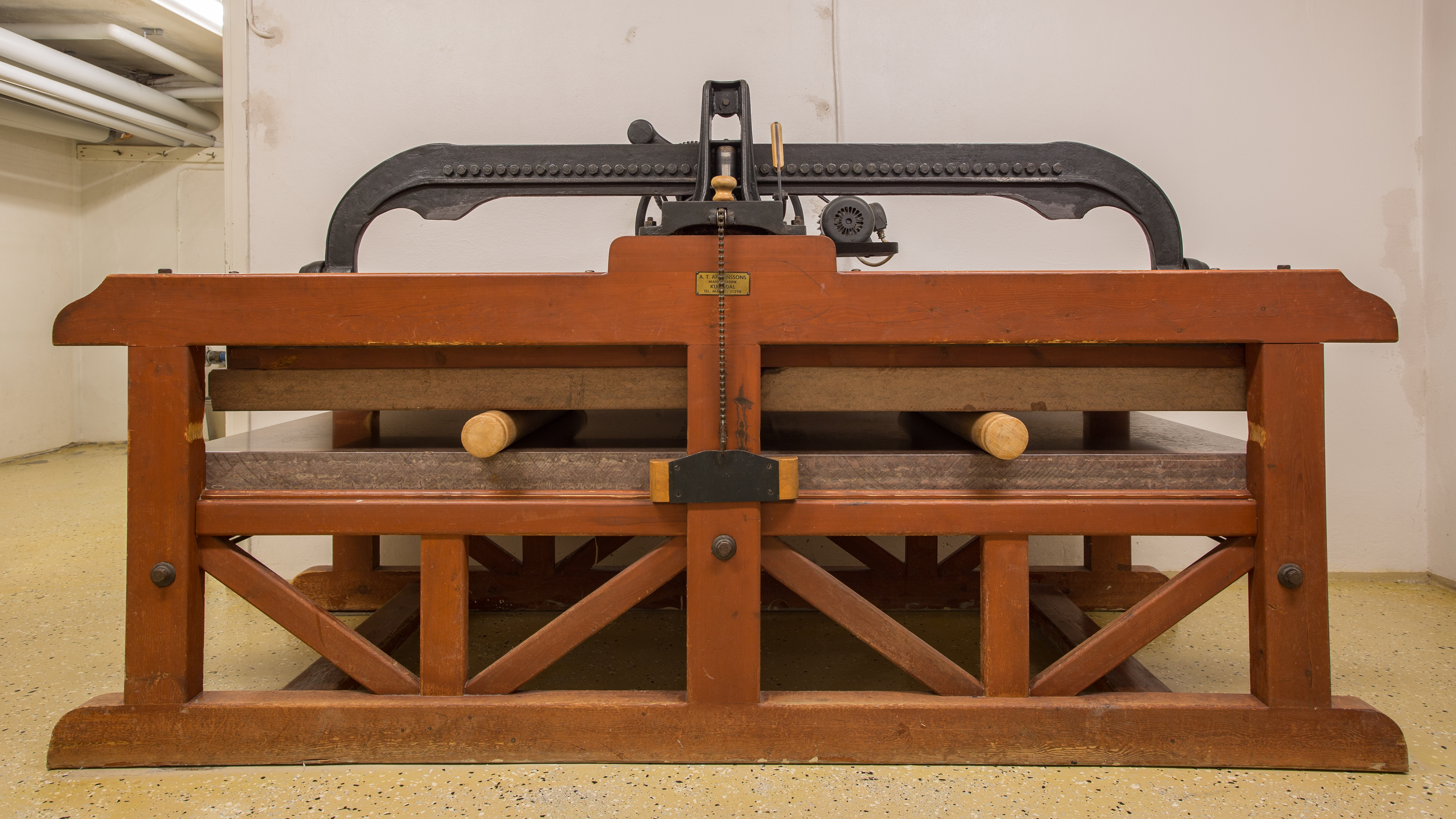 Stone mangle from A.T. Antonssons Mangelfabrik, Kulladal in a basement in Hedemora, Dalarna County, Sweden. Installed circa 1954.